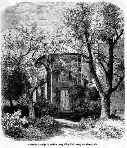 Muscovy Chapel in Warsaw, 1869, also known as Słuszek's treasury.